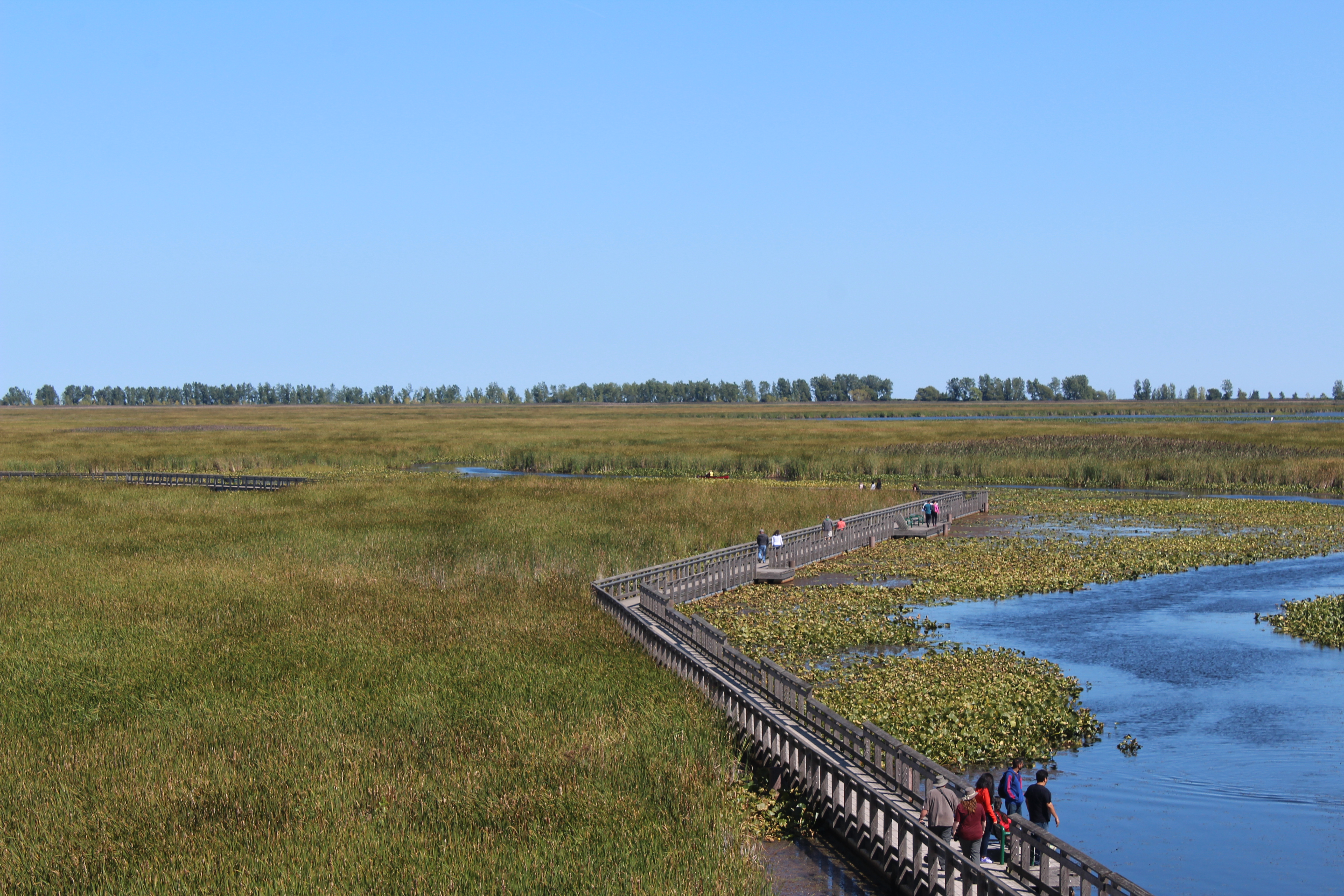 The boardwalk at Point Pelee National Park, in Leamington, Ontario.